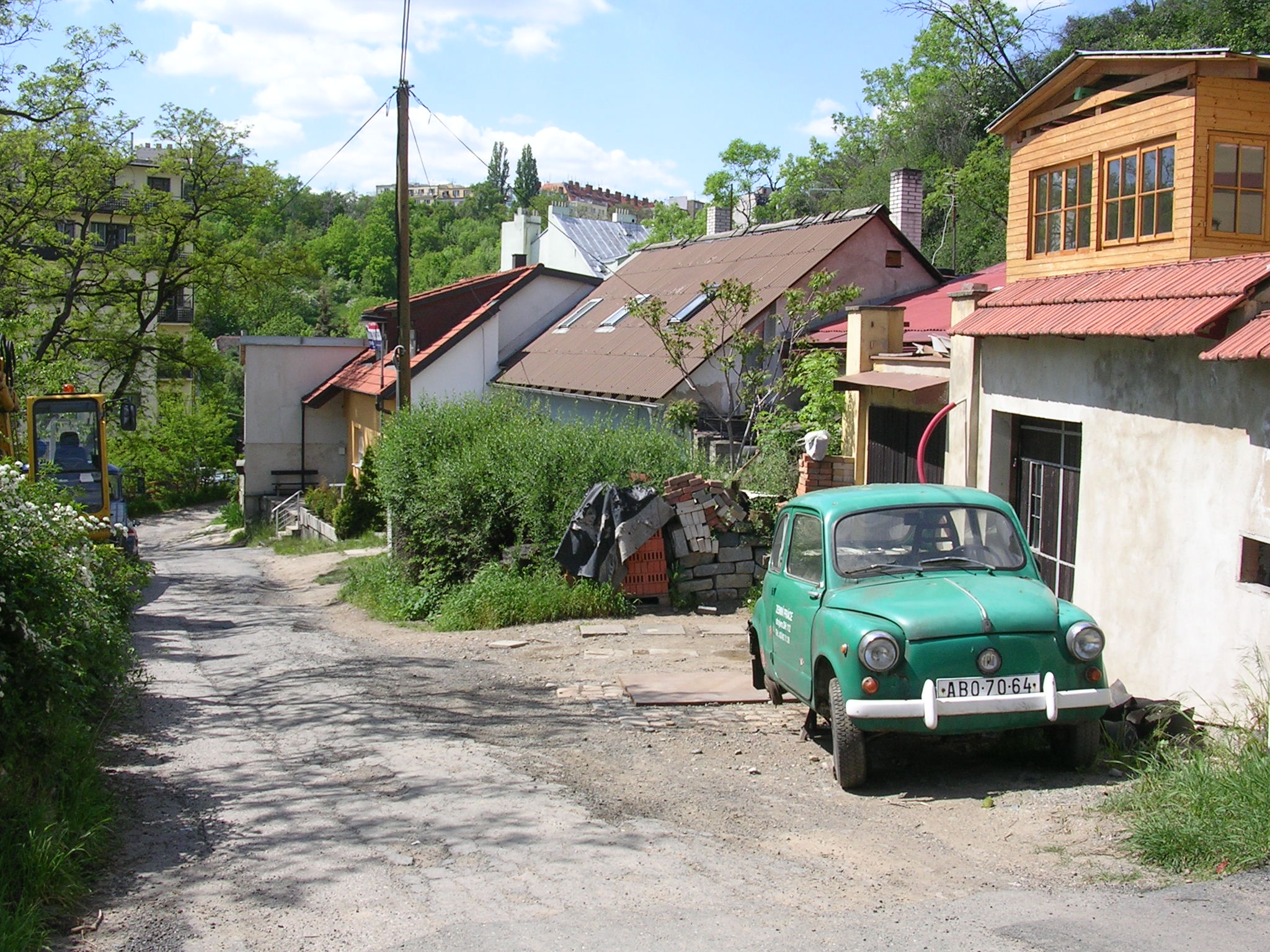 Michle, Prague, the Czech Republic. U plynárny Street.